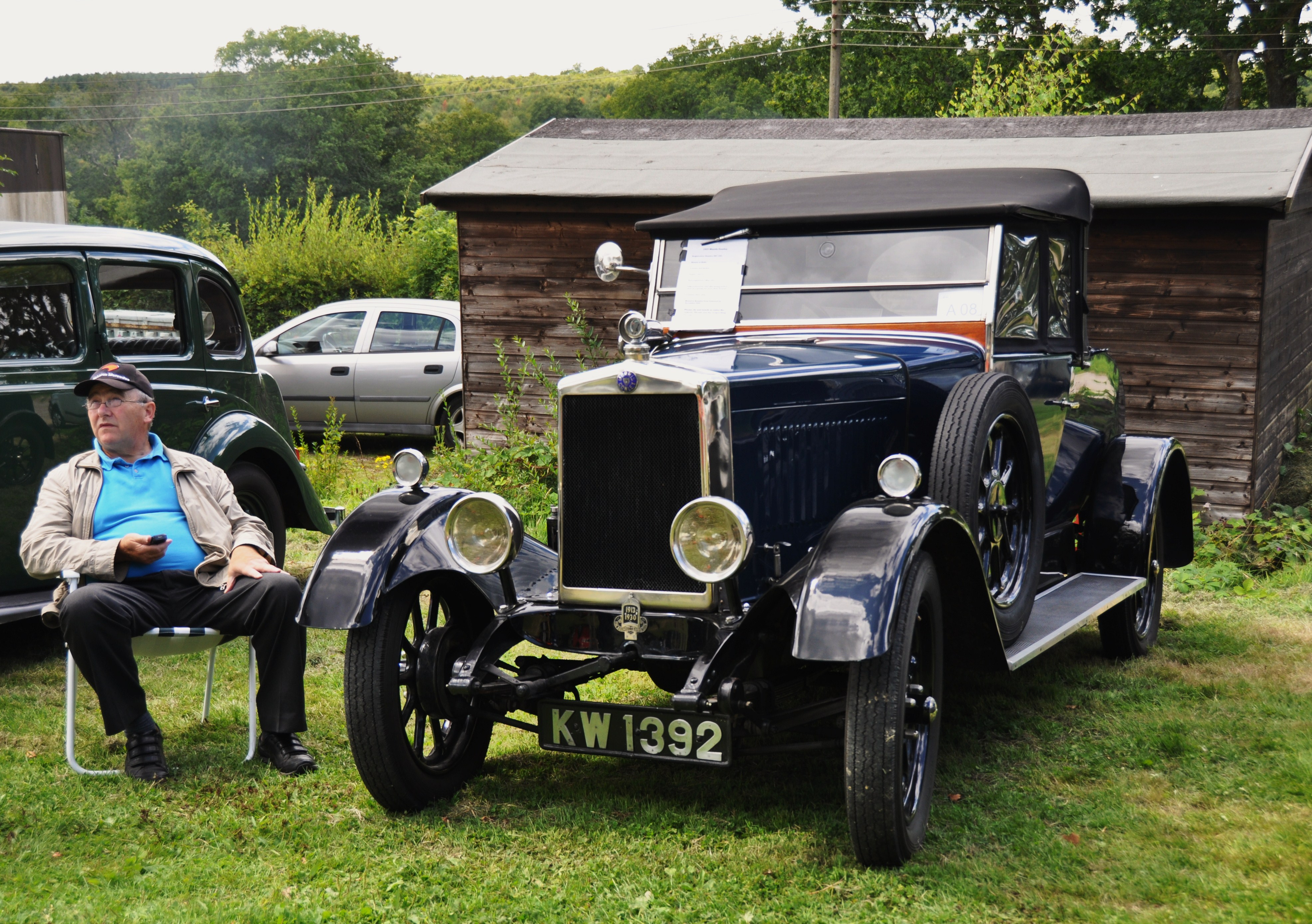 Morris Cowley two-seater with dickey 1927(DVLA) first registered 2 May 1927, 1463cc The owner of this shining machine won a prize I believe. I think this could be classified as a 2 seat tourer?